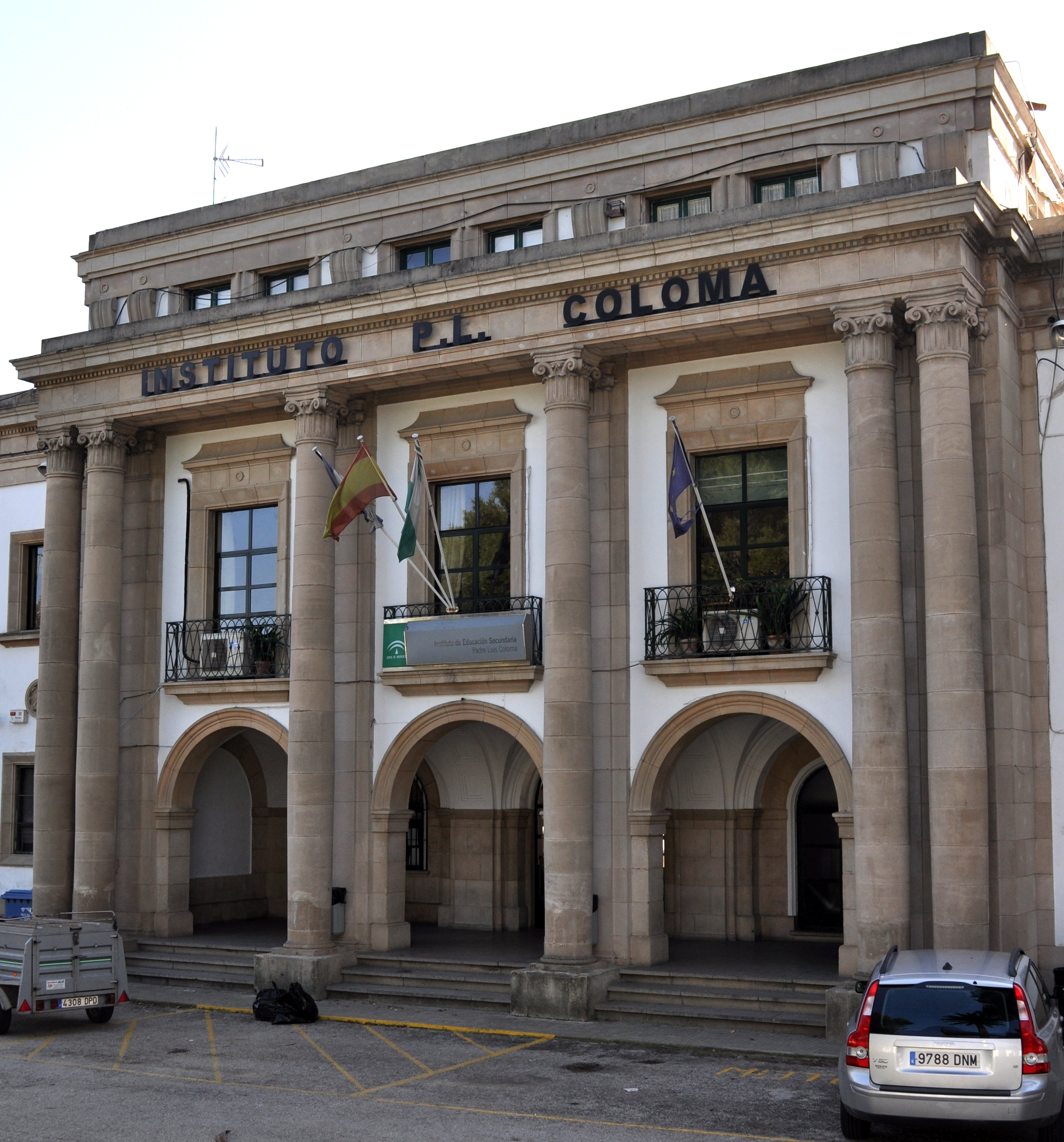 Coloma High School, Old Building, Alcalde Alvaro Domecq St., Jerez de la Frontera